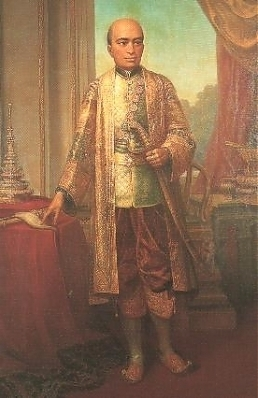 Crop of portrait of King Buddha Loetla Nabhalai which is displayed in the Chakri Mahaprasad Hall at the Grand Palace, Bangkok. Portrait created during the reign of King Chulalongkorn, meaning it was created no later than 1910 (identity of the creator is unknown to the uploader). Image taken from web page of the Public Relations Department, Region 3